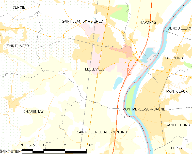 Map of French municipality